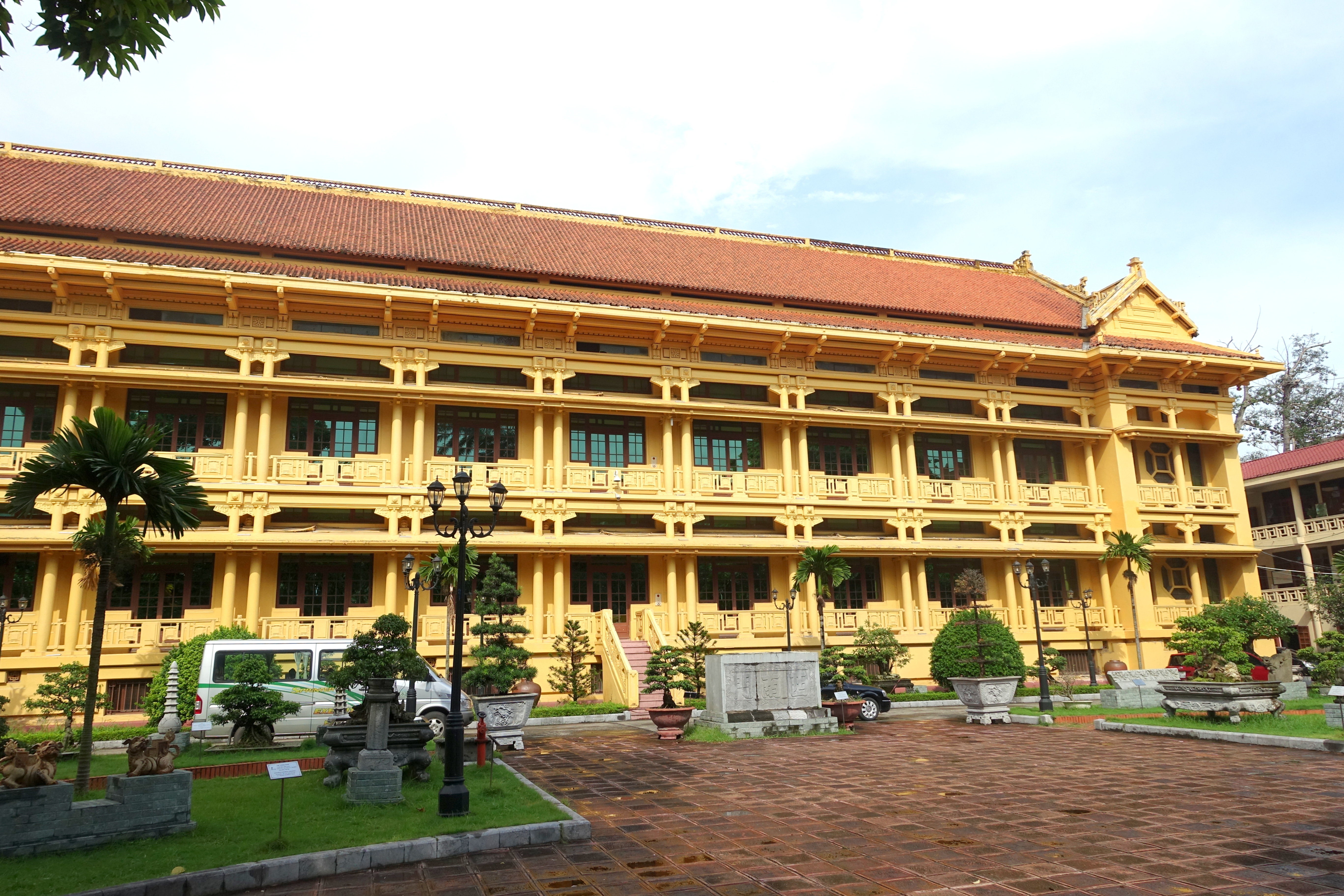 National Museum of Vietnamese History - Hanoi, Vietnam.